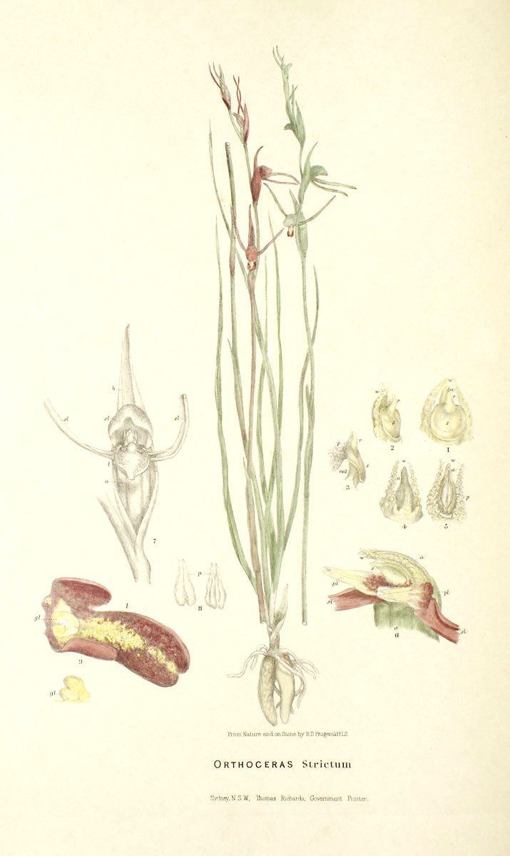 Illustration of Orthoceras strictum from Fitzgeraldi, R. D.: Australian Orchids